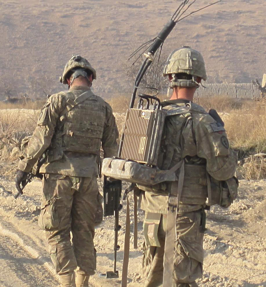 Two Soldiers with the 25th Infantry Division operate the CEIA mine detector and the THOR, two counter-IED detection devices. (U.S. Army photo)